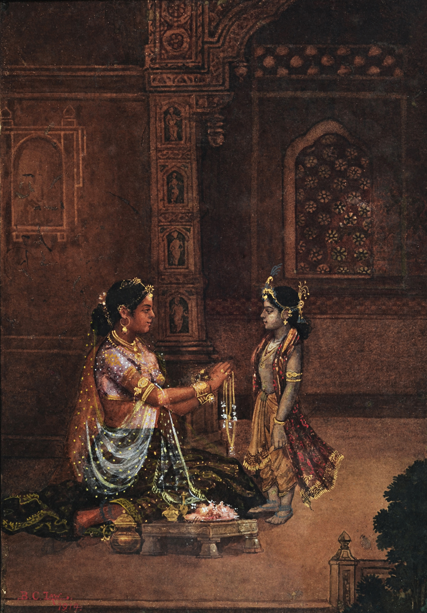 Untitled 1914 Watercolour on Gold paint 7.0 X 10.0 in. (17.8 X 25.4 cms) Signed in English (Lower left) Largely a self-taught academic realist, Bhabani Chandra Law (original Bengali surname is Laha), was a landholder, owned a lucrative business and was a prominent socialite. But art was his first love. His works were published in various journals including Aryavarta, Prabasi, Bharatvarsha and Manashi. He contributed articles on art in English and Bengali. He was the Joint President and Founder member of Indian Institute of Art and Industry, Calcutta. In 1919 he became the Founder member of Indian Academy of Fine Art, along with Jogeshchandra Seal, Jamini Roy, Hemendranath Mazumdar and Atul Bose. Bhabani Charan was the Founder and Secretary of Society of Fine Arts, Kolkata, and a Fellow at Royal Academy of Arts, London. He worked in an art milieu in Calcutta when Hemendranath Mazumdar, Atul Bose and other stalwarts of the time were challenging the validity of ‘nationalist’ objectives of the Bengal School. A widely admired subject painter of his time, Bhabhani Charan was highly skilled in the handling of transparent watercolours and oil paint on canvas. He painted scenes from the Indian epics, Puranic and historical episodes, and literary themes. Bhabani Charan Law was more popular as the painter of young beauties in admirable postures. His popularity owed much to the photographic naturalism that they projected, bereft of any philosophical bias. The women he painted are warm, desirable and lively, neither stylized nor lacking sensuality. Law’s paintings celebrate the aesthetics of western academic naturalism that ran parallel to the much admired Bengal School. Law passed away in 1946.